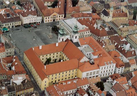 Győr, Hungary, aerialphotography